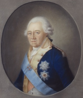 Portrait of Frederick II Eugene, Duke of Württemberg (1732-1797)